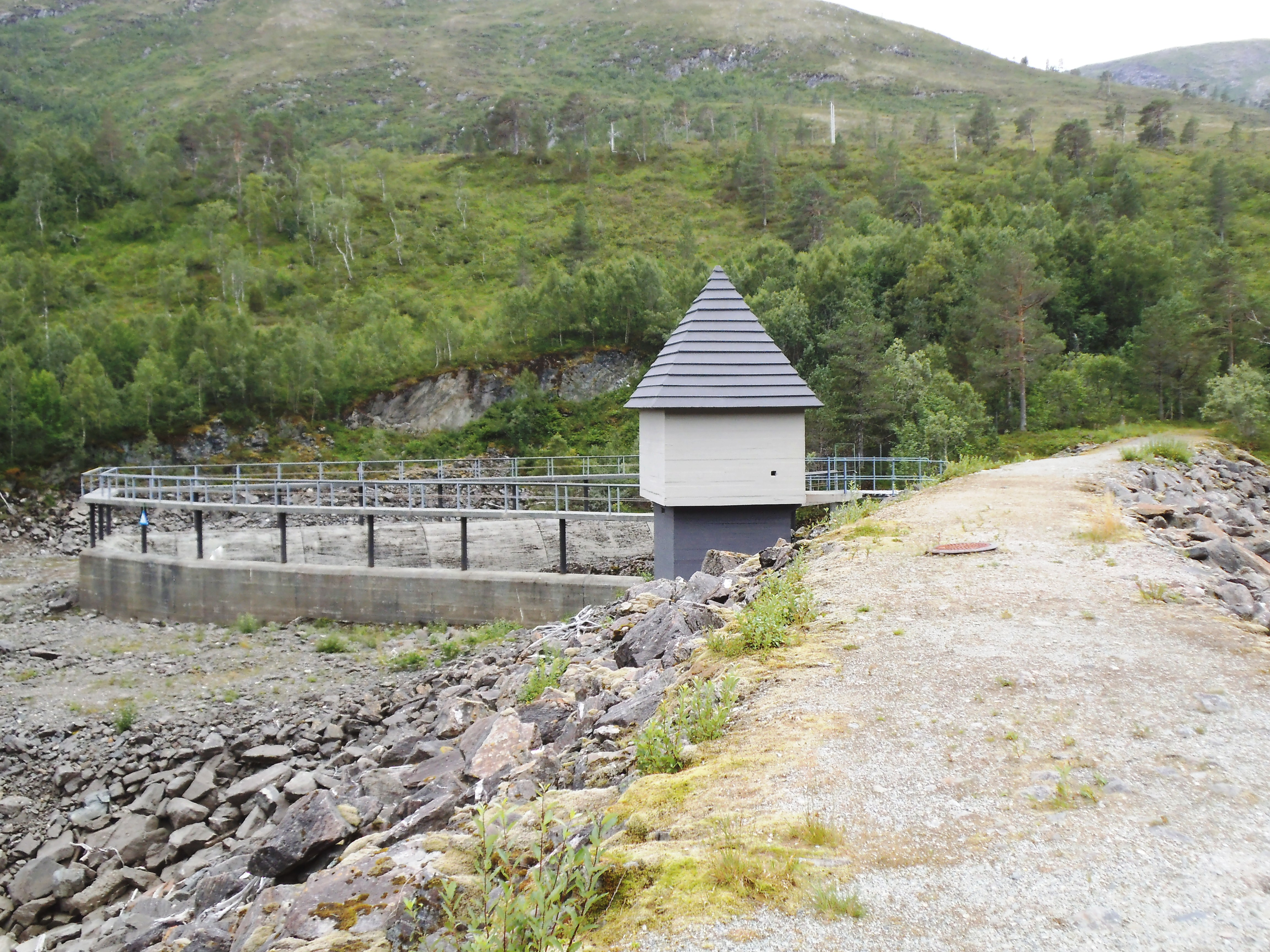 Søa kraftverk is a power plant right by the lake Vasslivatnet in Hemnekjølen, Norway.